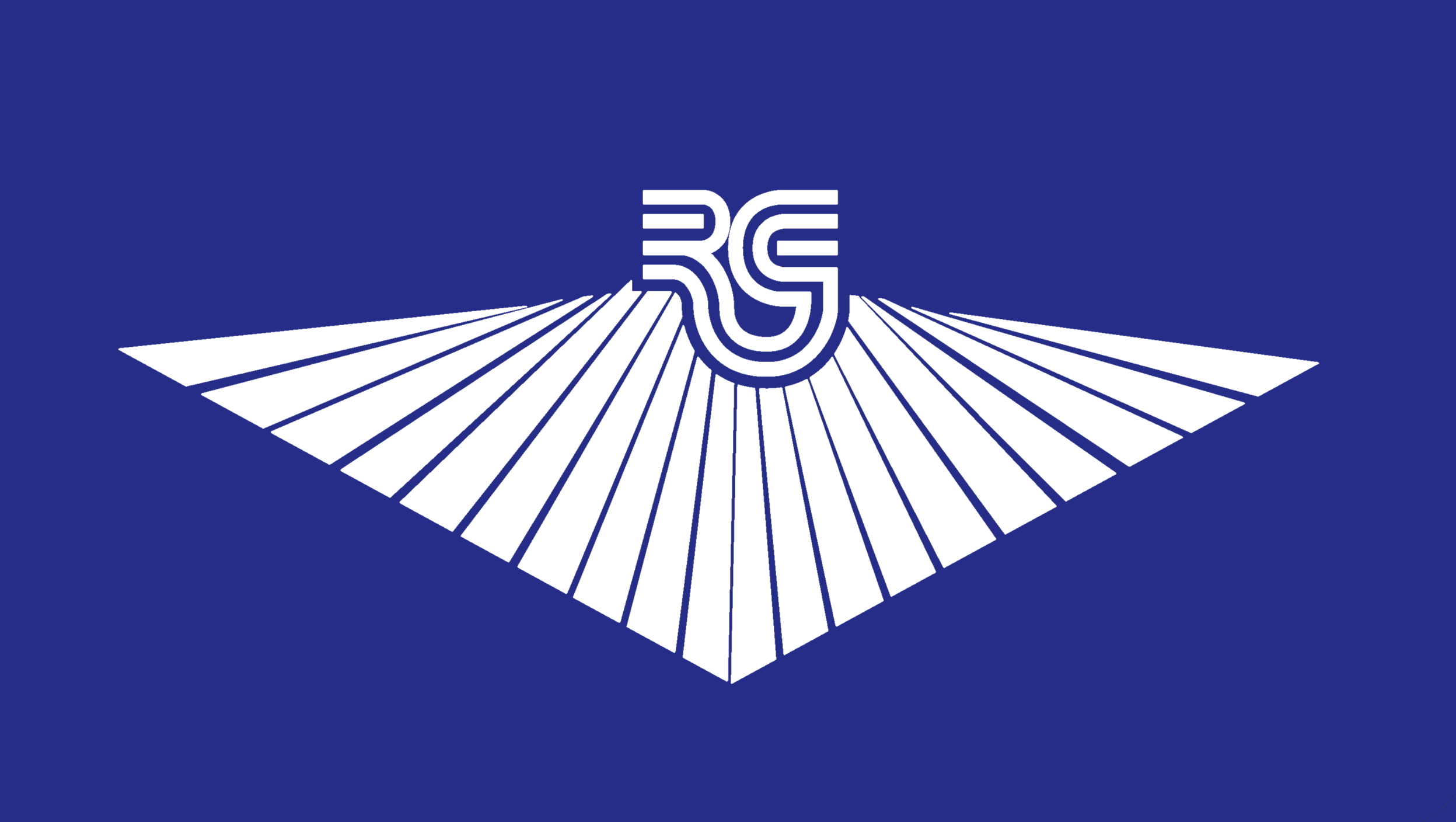 Flag that serves to identify the university community of UNERG. It is usually located on the right side of the national flag and on the left side of the faculties.